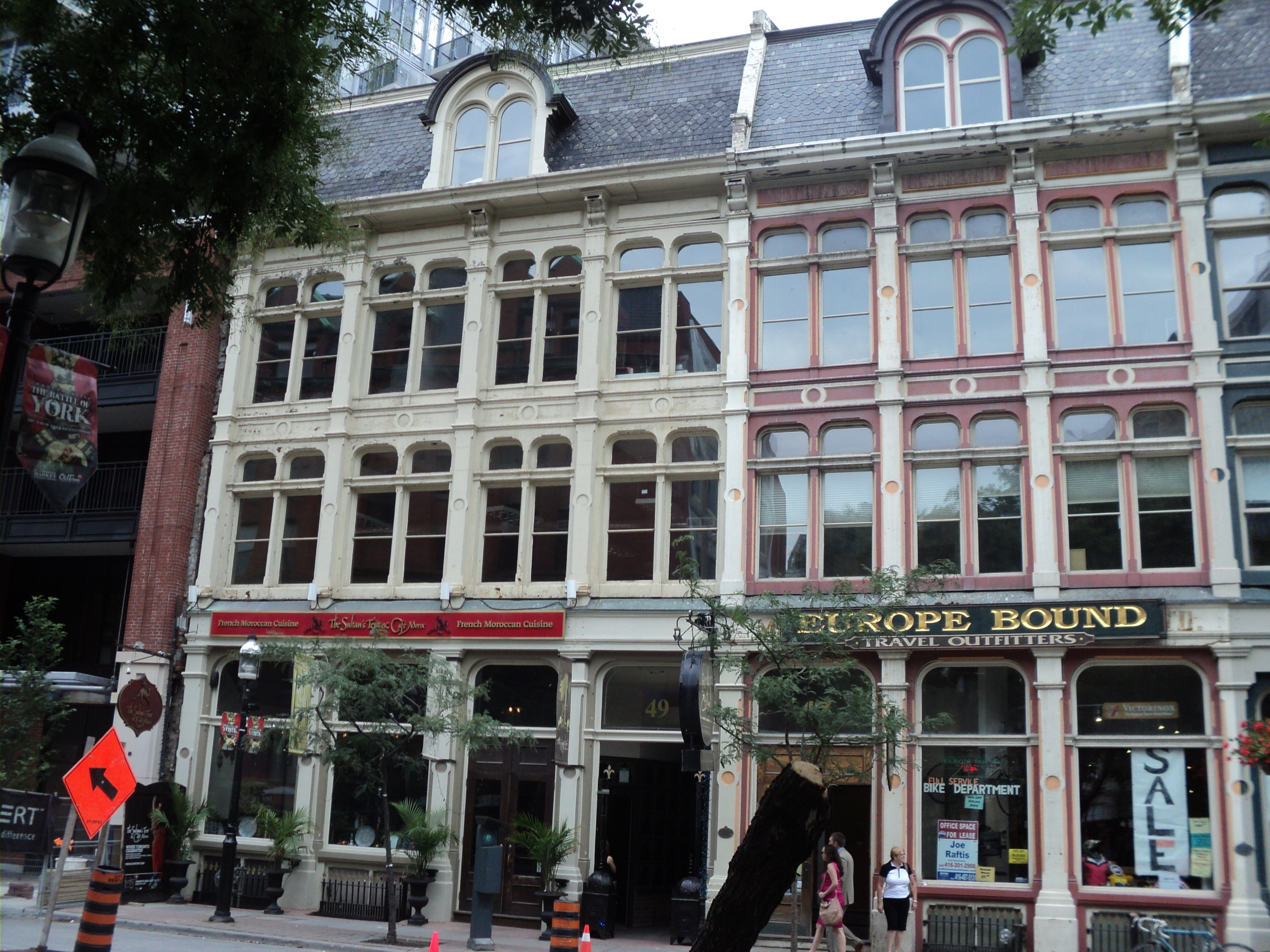 View of 47 and 49 Front St. in Toronto. 47 is to the right, 49 is to the left. These buildings have a cast-iron front and were built in1872/1873.